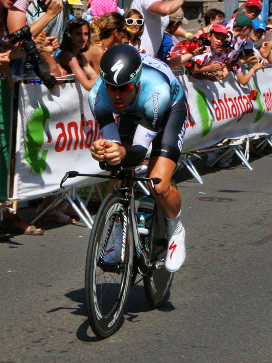 Cavendish during the stage 11 TT.